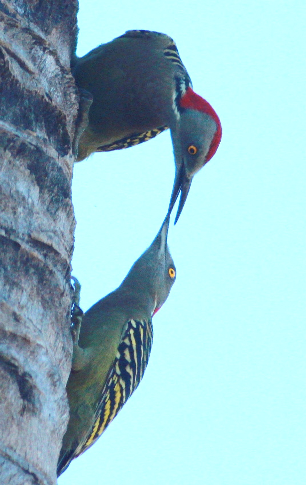 Probably, Hispaniolan Woodpecker. Dominican Republic, near La Romana.